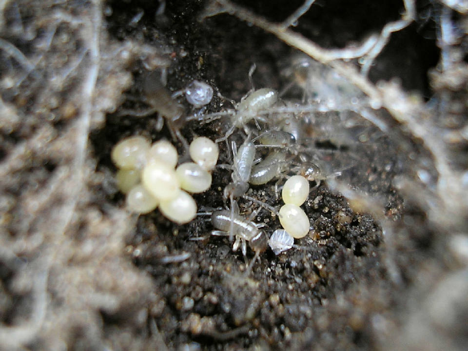 Nest of hatching Earwigs, most probably of species Forficula auricularia. Location: Enschede, Netherlands